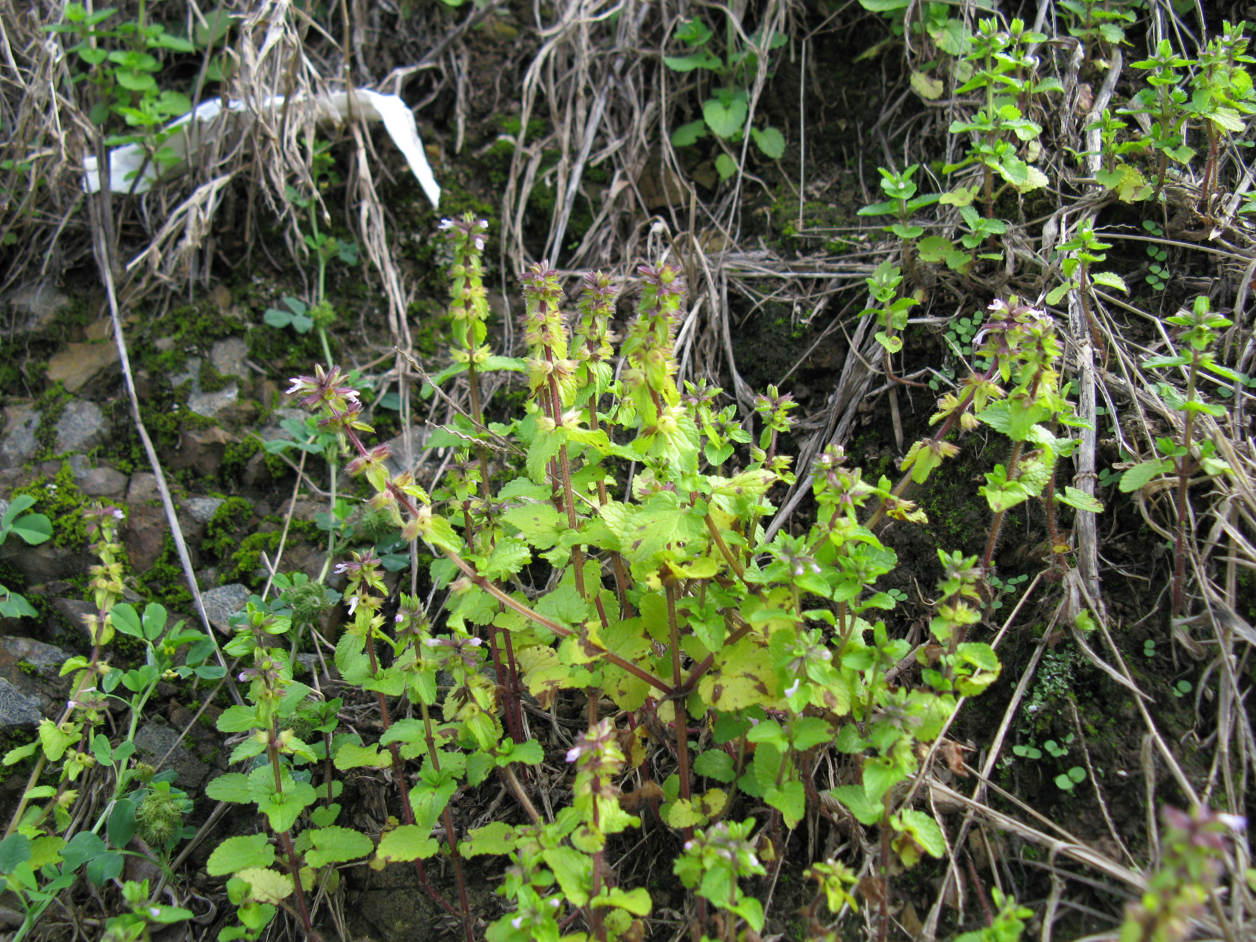 Introduced, cool-season, annual, erect herb to 35 cm tall. Stems are hairy. Leaves are stalked, opposite, 1-4 cm long, broad and deeply veined, with rounded teeth on the leaf margins. Flowers are 5-7 mm long, pink to purple and occur in small clusters in the axils of the upper leaves. Flowering is in winter and early spring. A native of Europe and North Africa, it is a weed of cultivation and disturbed land, such as around watering points, stockyards and stream banks. Poisonous to cattle, horses, pigs and sheep. Most cases occur in late winter and spring, causing a range of symptoms including weakness, staggers with stilted gait, dullness and diarrhoea. Older plants are generally more toxic than younger ones. Do not graze stock where infestations occur. Remove stock and rest them for several days to 2 weeks if they have grazed plants. Healthy vigorous pastures are an effective control. Registered herbicides are available for control in pastures.